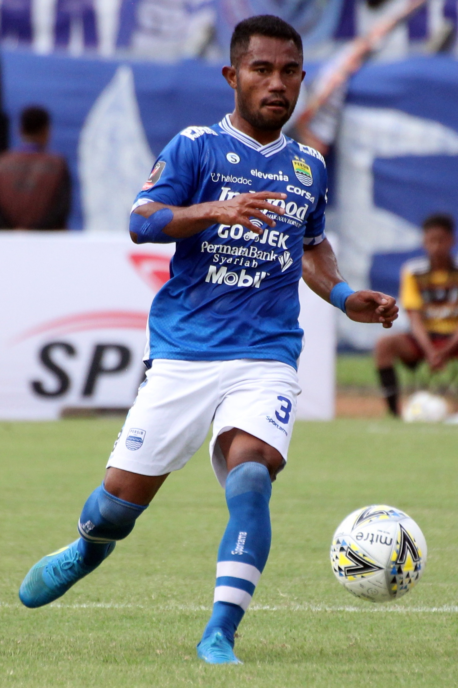 Ardi Idrus Persib Bandung Forever